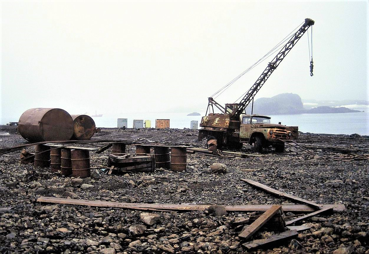 An old ZIL-130 truck, rusting drums and other refuse litter the shoreline at Bellingshausen, a Russian Base on King George Island, Antarctica